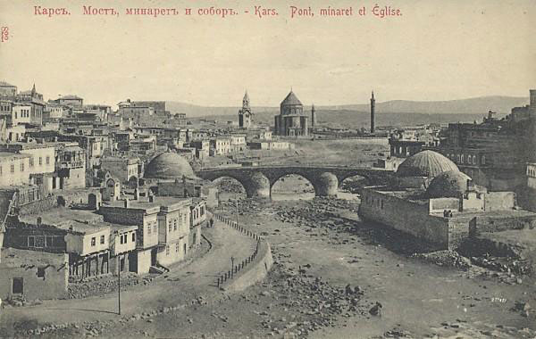 Kars in 1880-90s